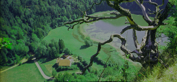 Antre Lake, argentic photo, from Roche d'Antre, Villards-d'Héria, Haut-Jura Regional Park